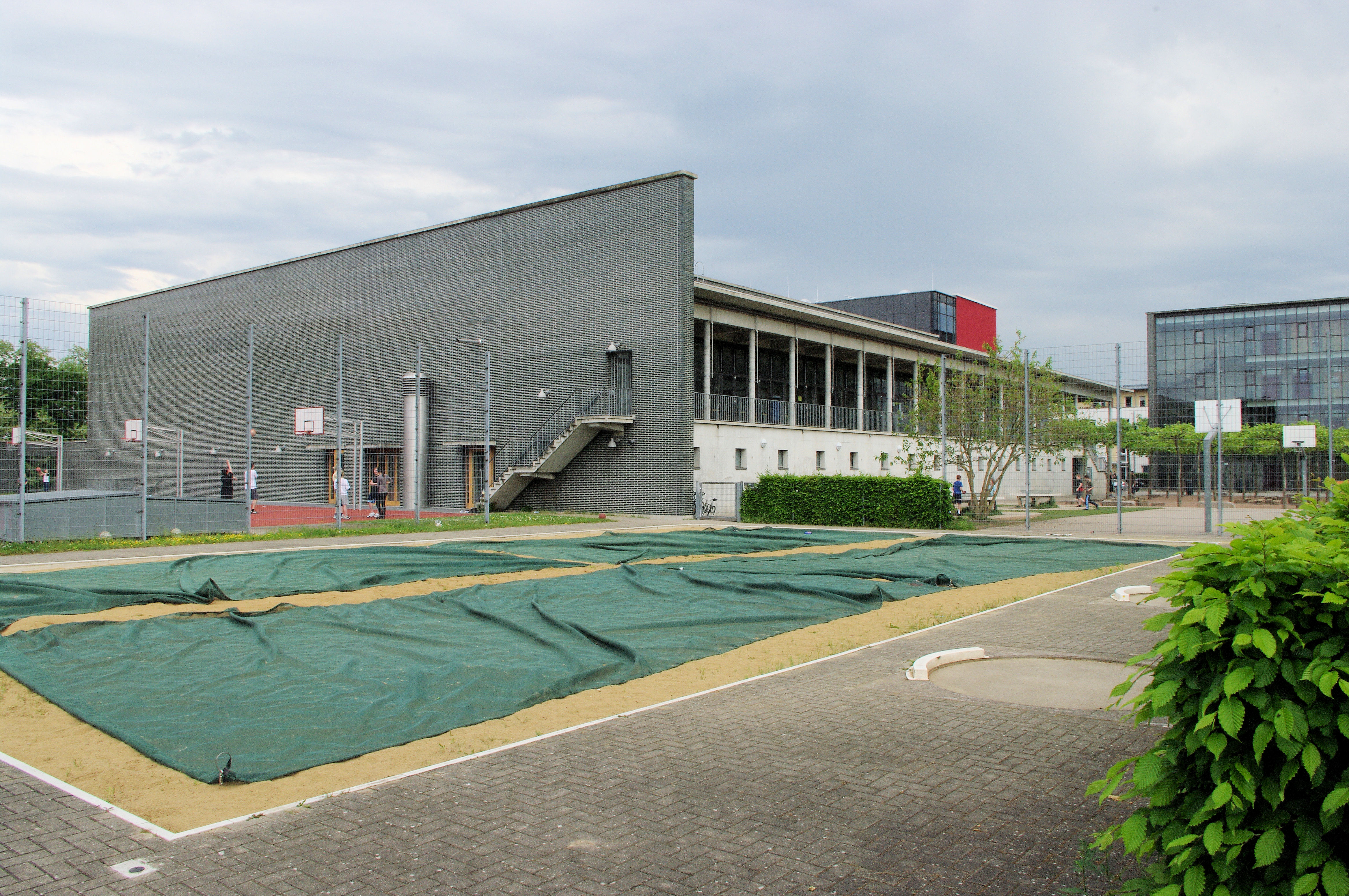 Sepp-Glaser-Sporthalle